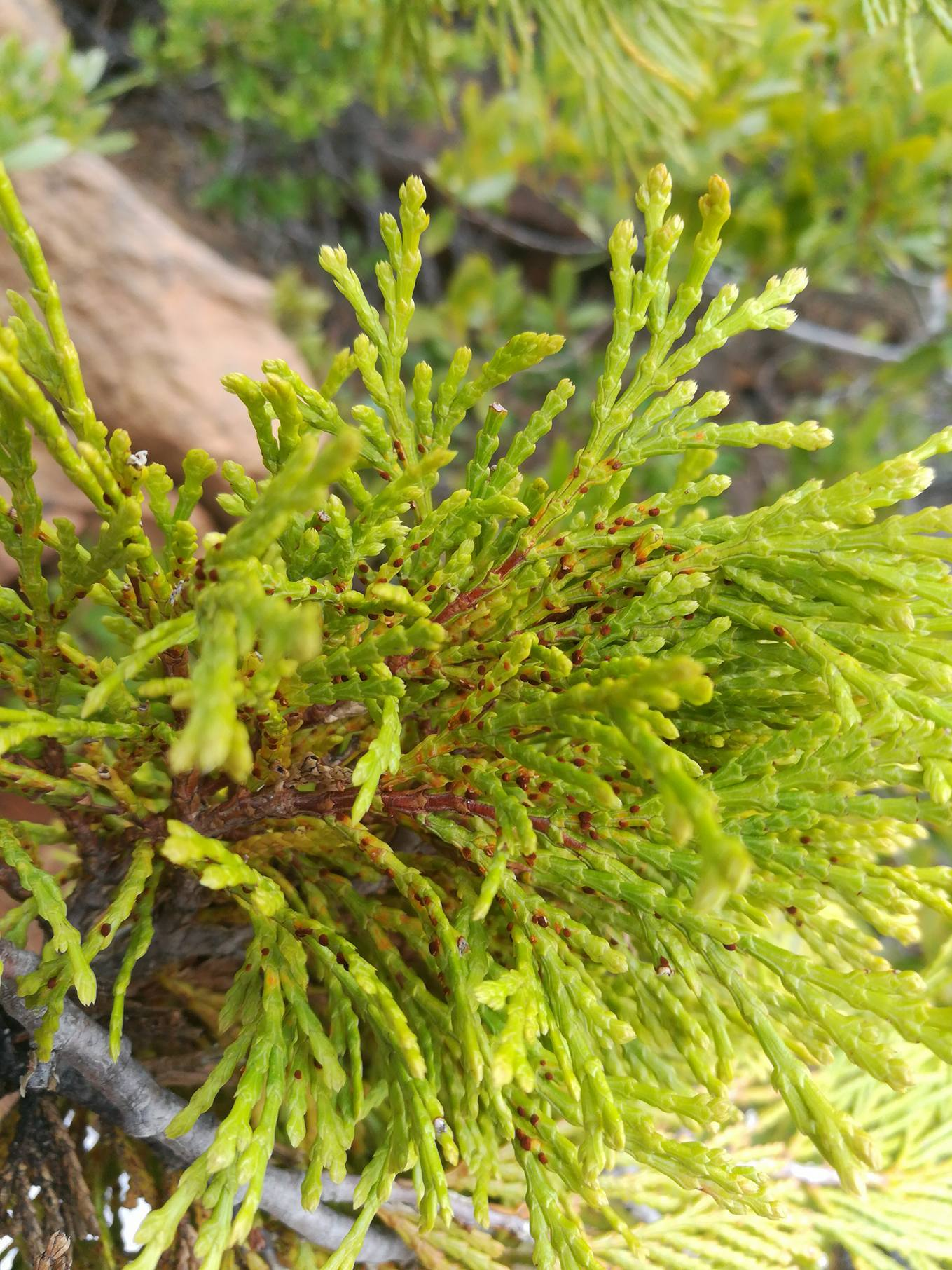 Gymnosporangium libocedri Flickr description Pest: Incense cedar broom rust (Gymnosporangium libocedri) Host: Incense cedar (Calcedrus decurrens) Forest type: Inland mixed conifer Location: Horse mountain Elevation: 4600 ft